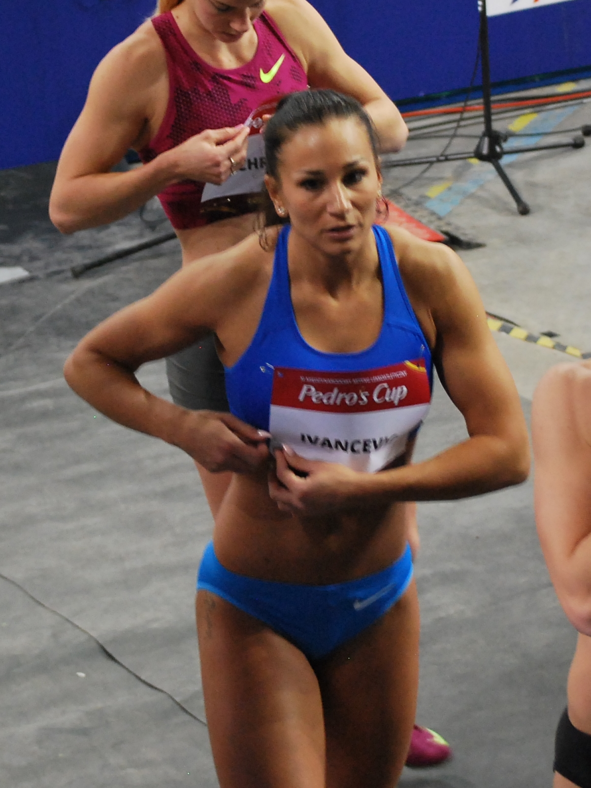 Pedros Cup 2015 Łódź, Andrea Ivancević, hurdler from Croatia